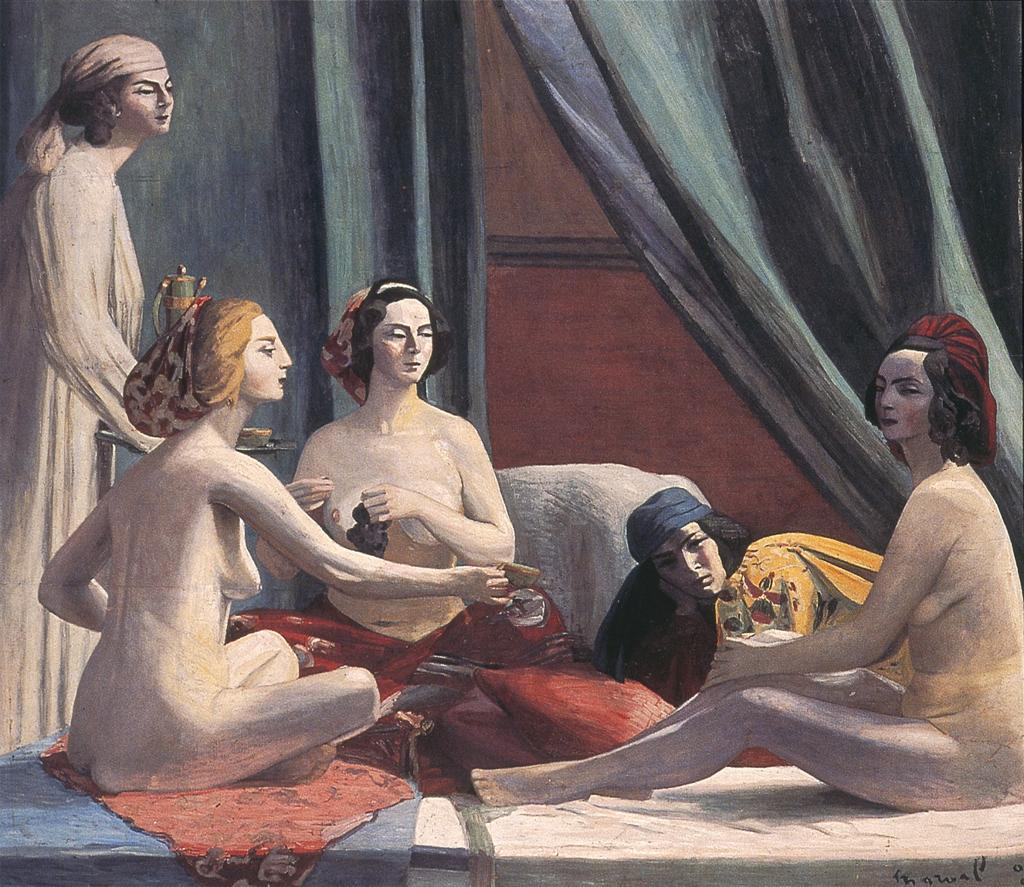 Les-Odalisques